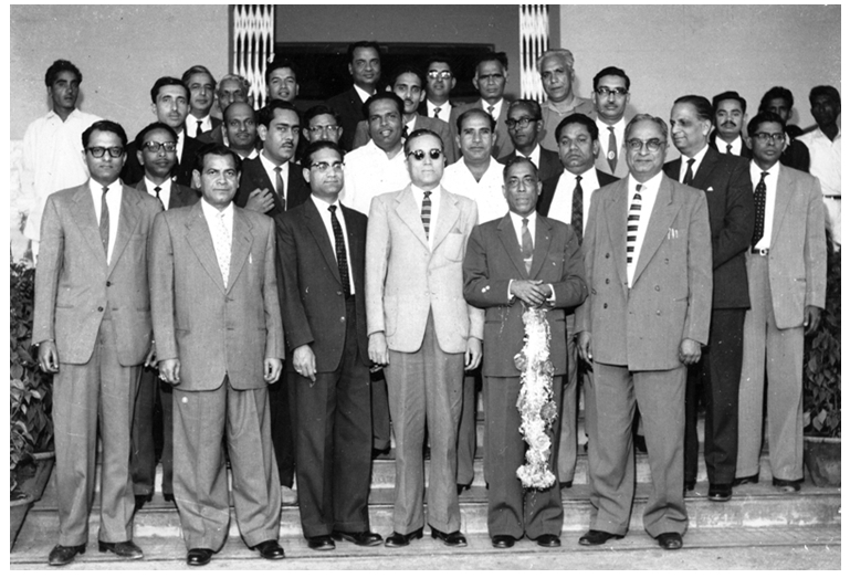 Khuda Buksh being received at Karachi airport, 1965